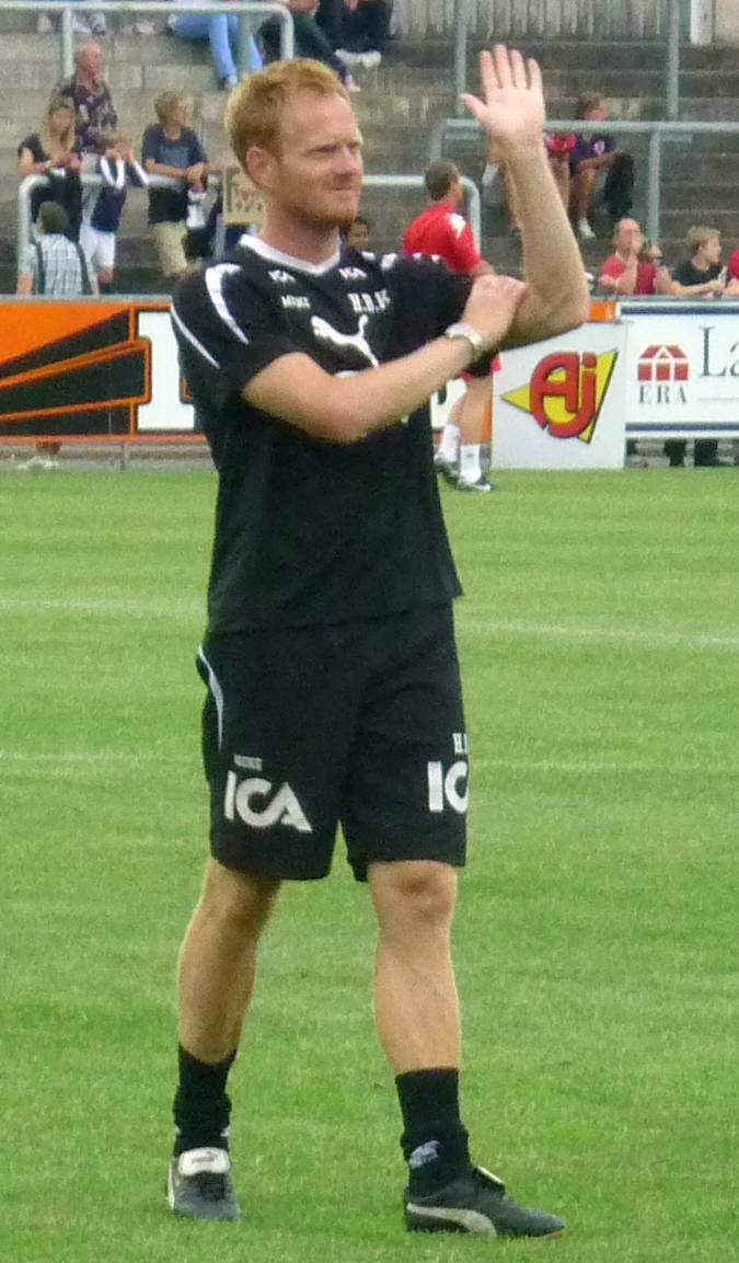 Michael Svensson in 2010